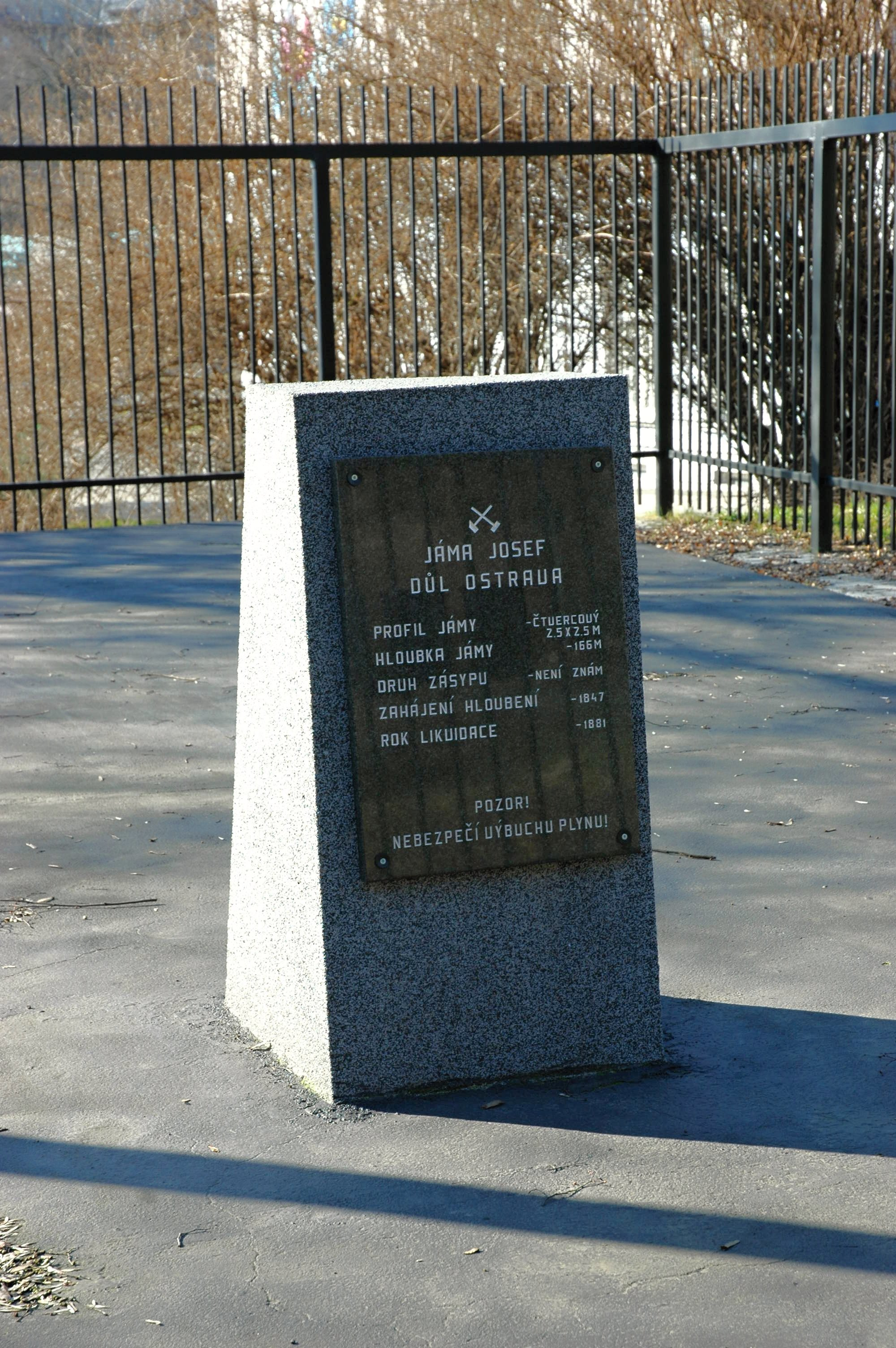 Former coal mine Josef, Slezská Ostrava, Czech Republic